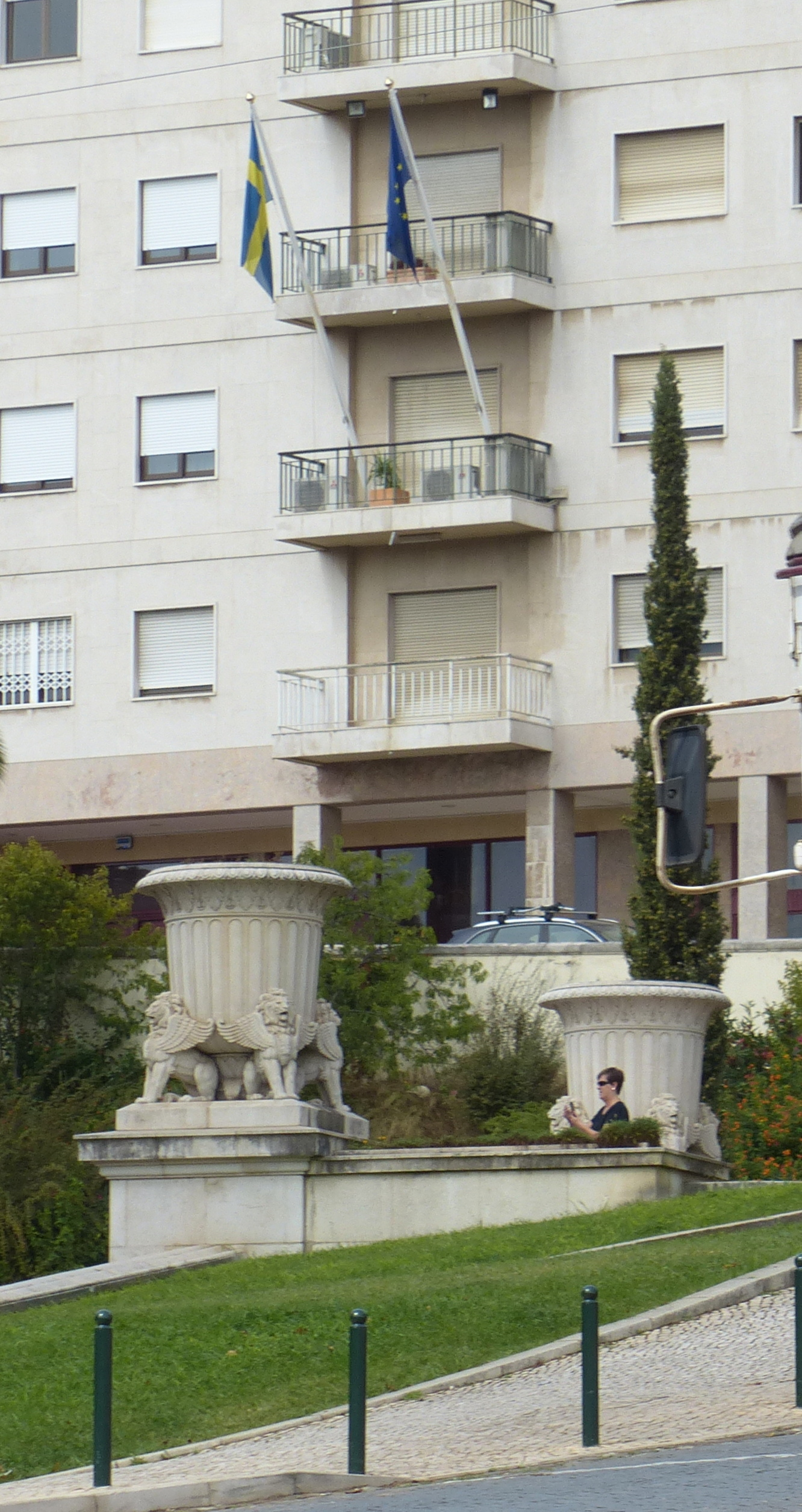 Lissabon